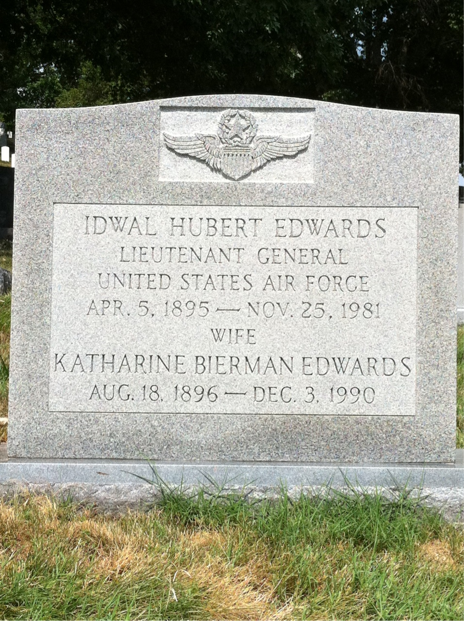 Grave of Idwal H. Edwards at Arlington National Cemetery